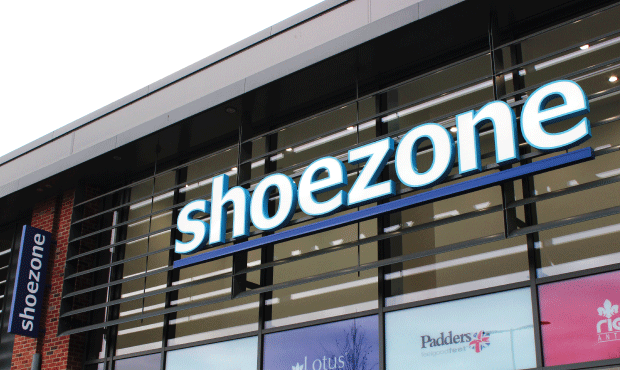 Shoe Zone Kirkstall, Leeds.